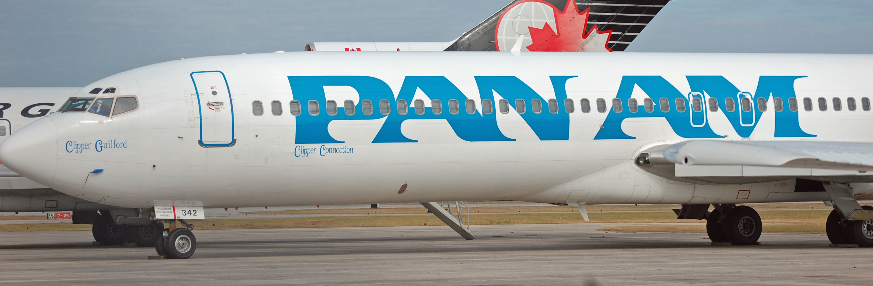 N342PA Pan Am Clipper Guilford, Boeing 727-222 (CN/MSN: 21893, Line #: 1503) Built: 1979. Probably used by Pan Am Systems